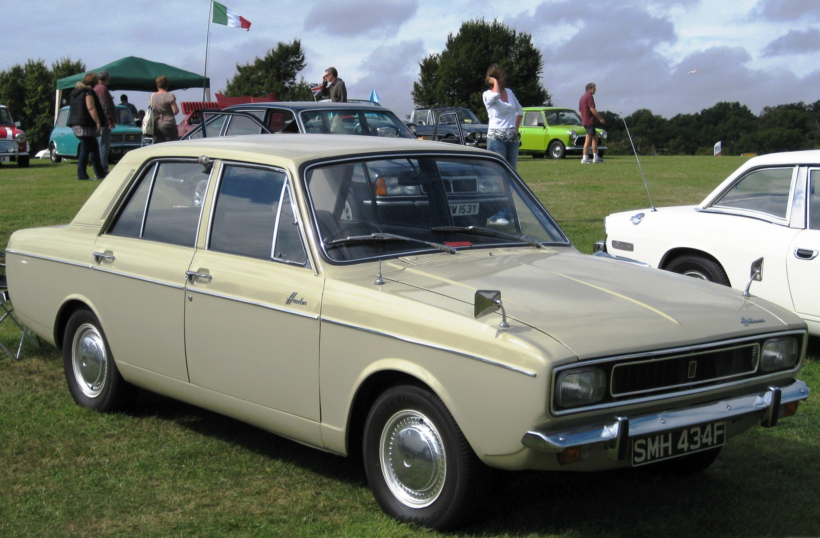 Hillman Hunter 1725cc 1967